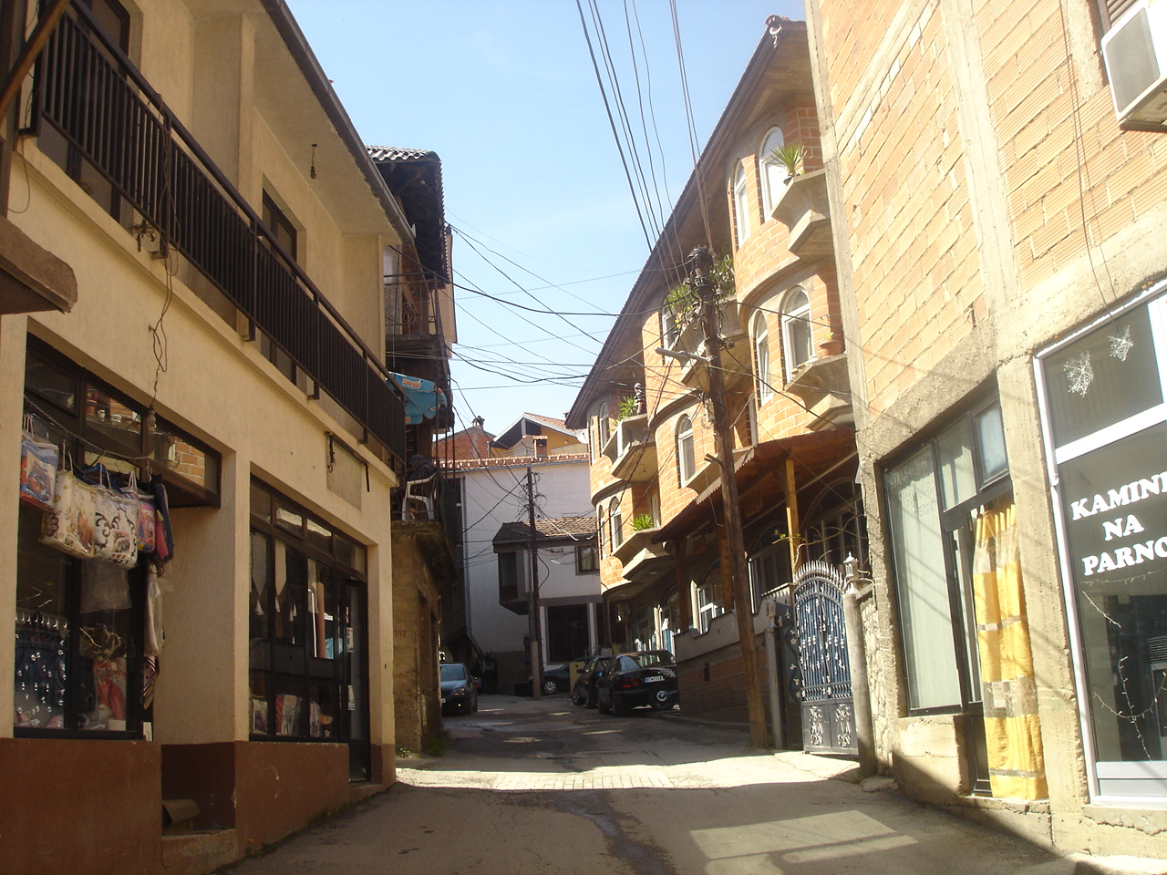 Main street in Labuništa, neat Struga, Macedonia